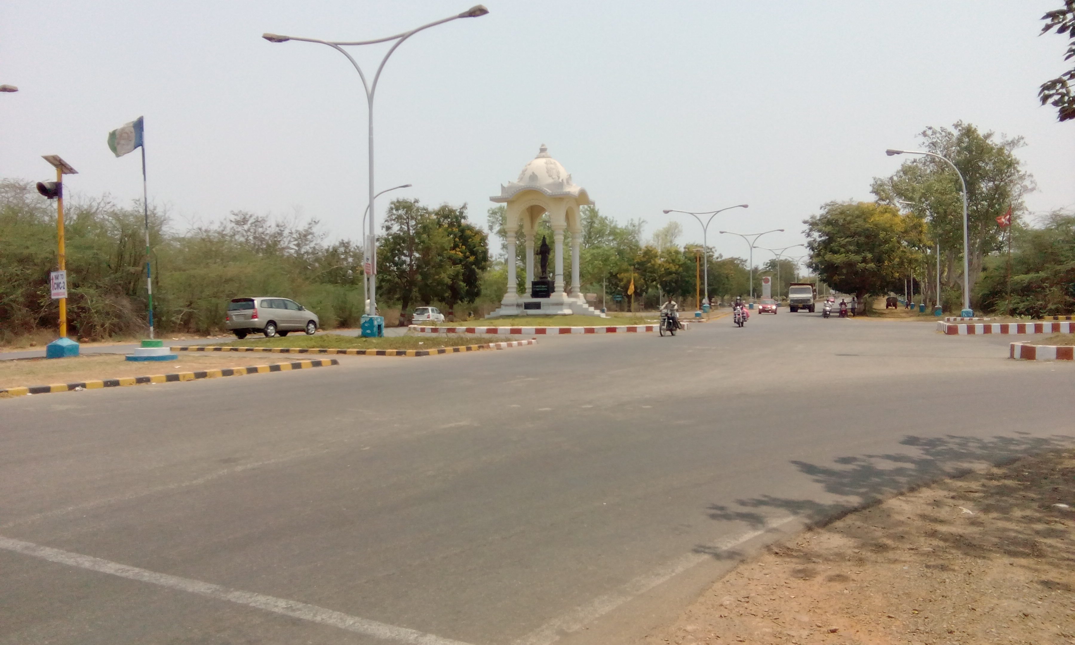 Ukkunagaram